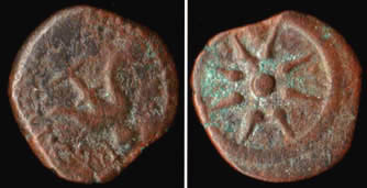 A bronze Widow's Mite or Prutah, minted by Alexander Jannaeus, King of Judaea, 103 - 76 B.C. obverse: anchor upside-down in circle, reverse: star of eight rays From the private collection of Randy Benzie